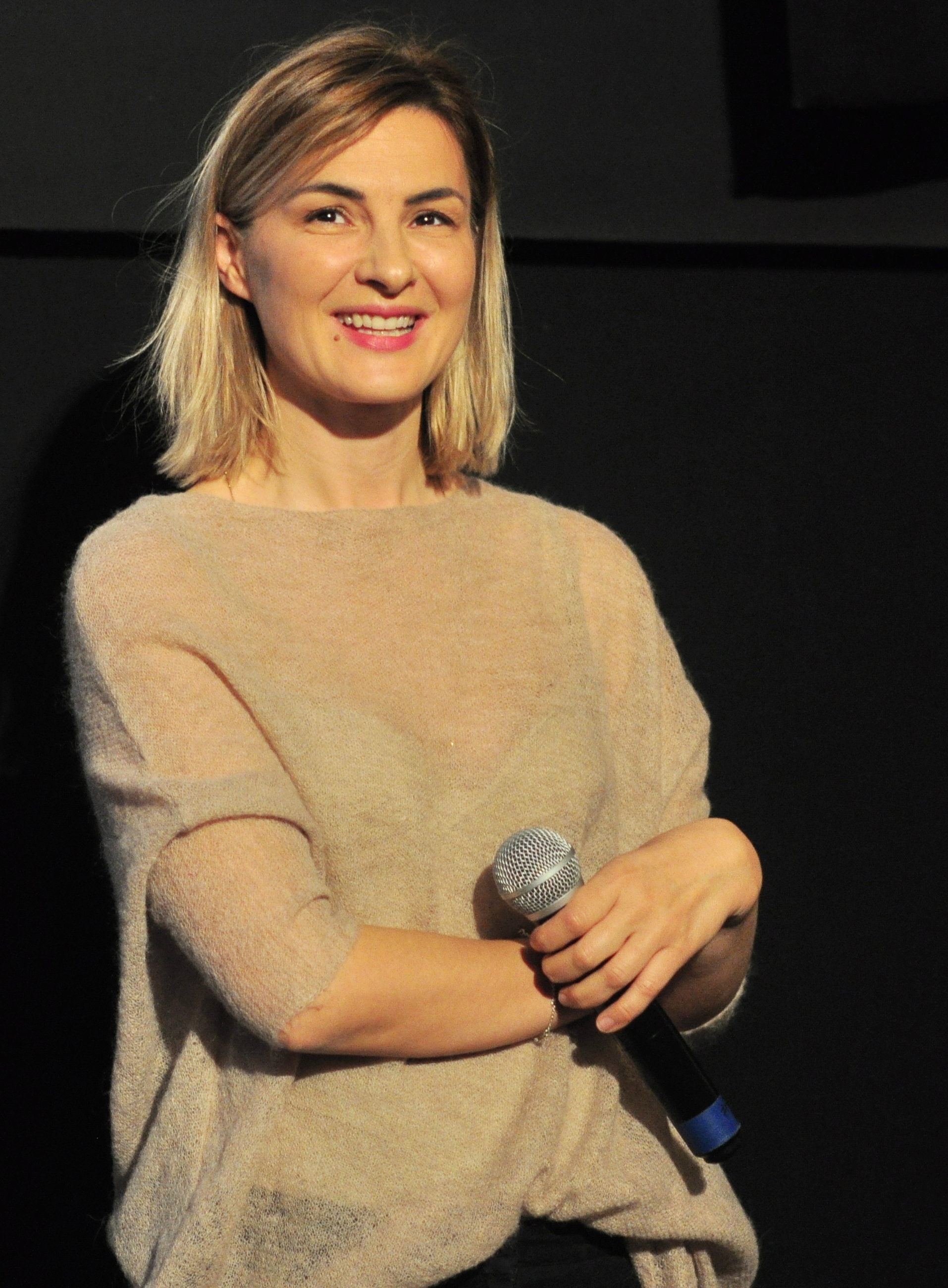 Actress Ioana Flora speaking after a presentation of the film Breaking News at the Romanian Film Festival in Seattle, SIFF Cinema Uptown, Seattle, Washington, U.S.